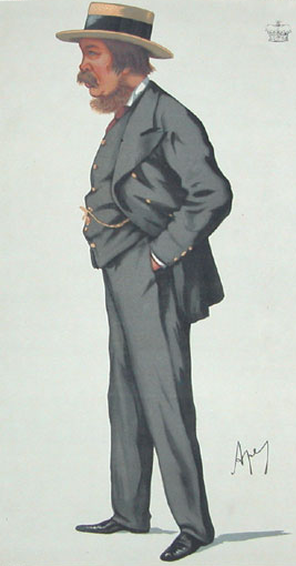 Caricature of William Cecil, 3rd Marquess of Exeter. Caption read "a real English gentleman".